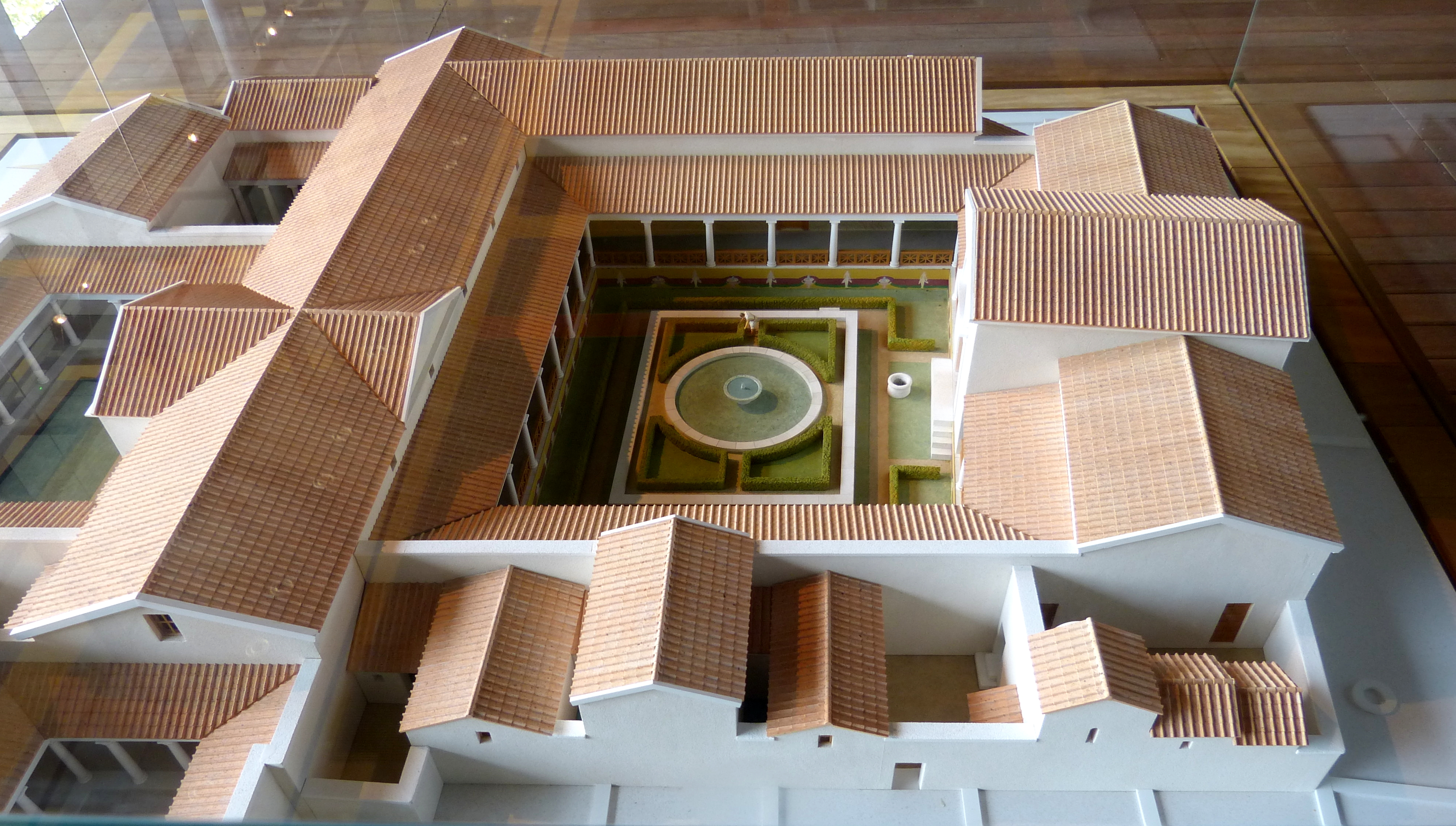 Périgueux ( Dordogne ). Vesunna-Museum: Ancient Roman domus « des Bouquets »: Model ( 2nd century AD )